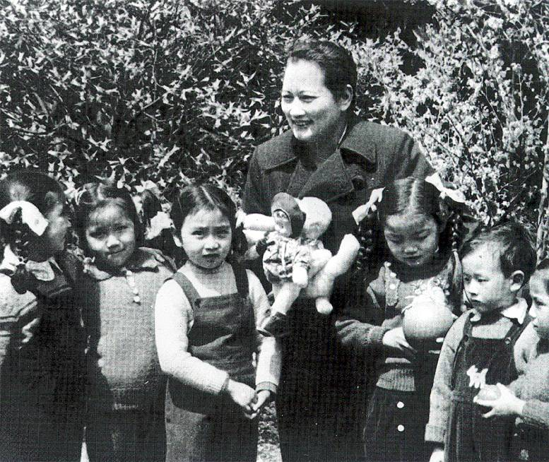 Soong Ching-ling with children